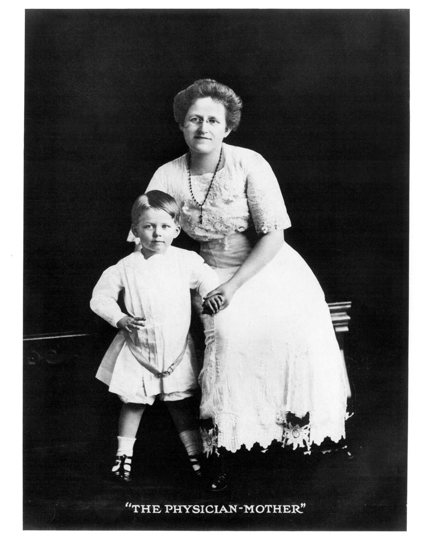 Published by Chatauqua Lecture Mid-West Circuit 1915.